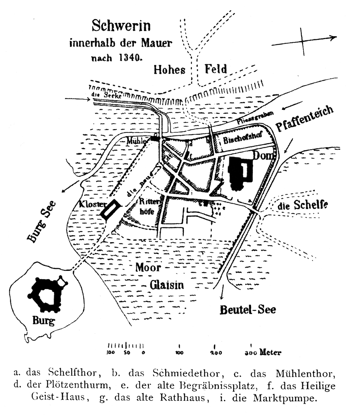 Map of Schwerin after 1340